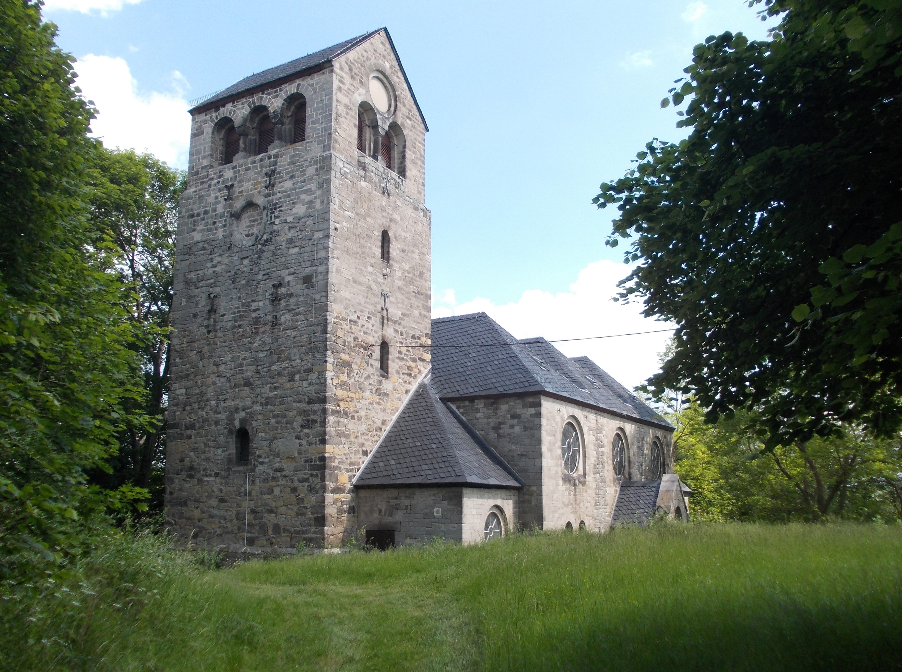 St. Peter's Church in Müllerdorf (Salzatal, district: Saalekreis, Saxony-Anhalt)